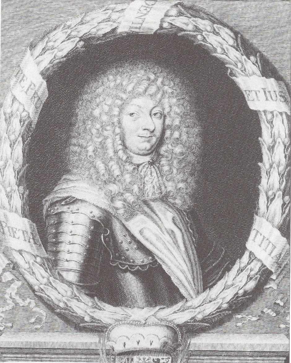 Source: Genealogy Database by Daniel de Rauglaudre